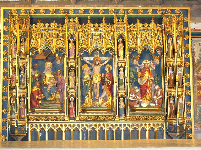 The Parish Church of St Mary the Virgin, Calne This splendid reredos was erected by Canon John Duncan, vicar of Calne from 1865 to 1907. It is situated under the east window above the altar. The three panels portray, from left to right, the birth of Christ, the Crucifixion and the Resurrection. Look out for the Virgin Mary and the three Wise Men and the Roman soldiers at the foot of the risen Jesus.